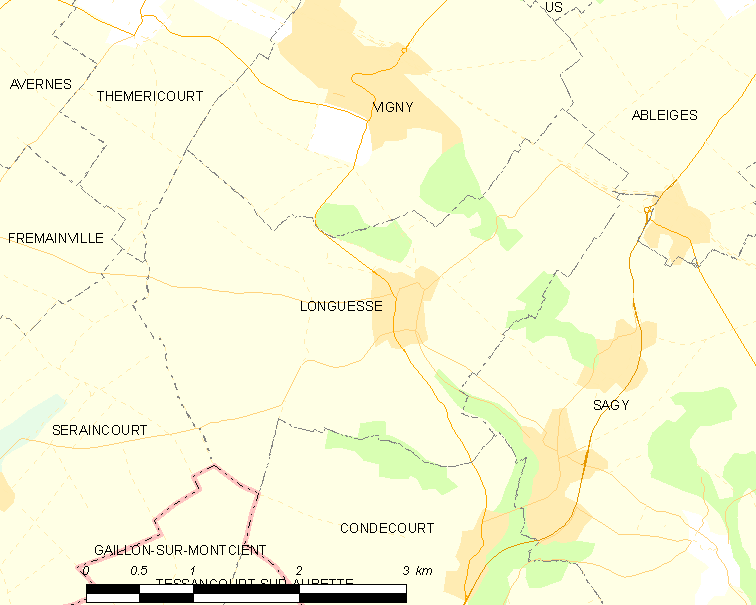 Map of French municipality Longuesse